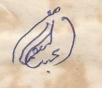 Wasfi Bahraichi Signature